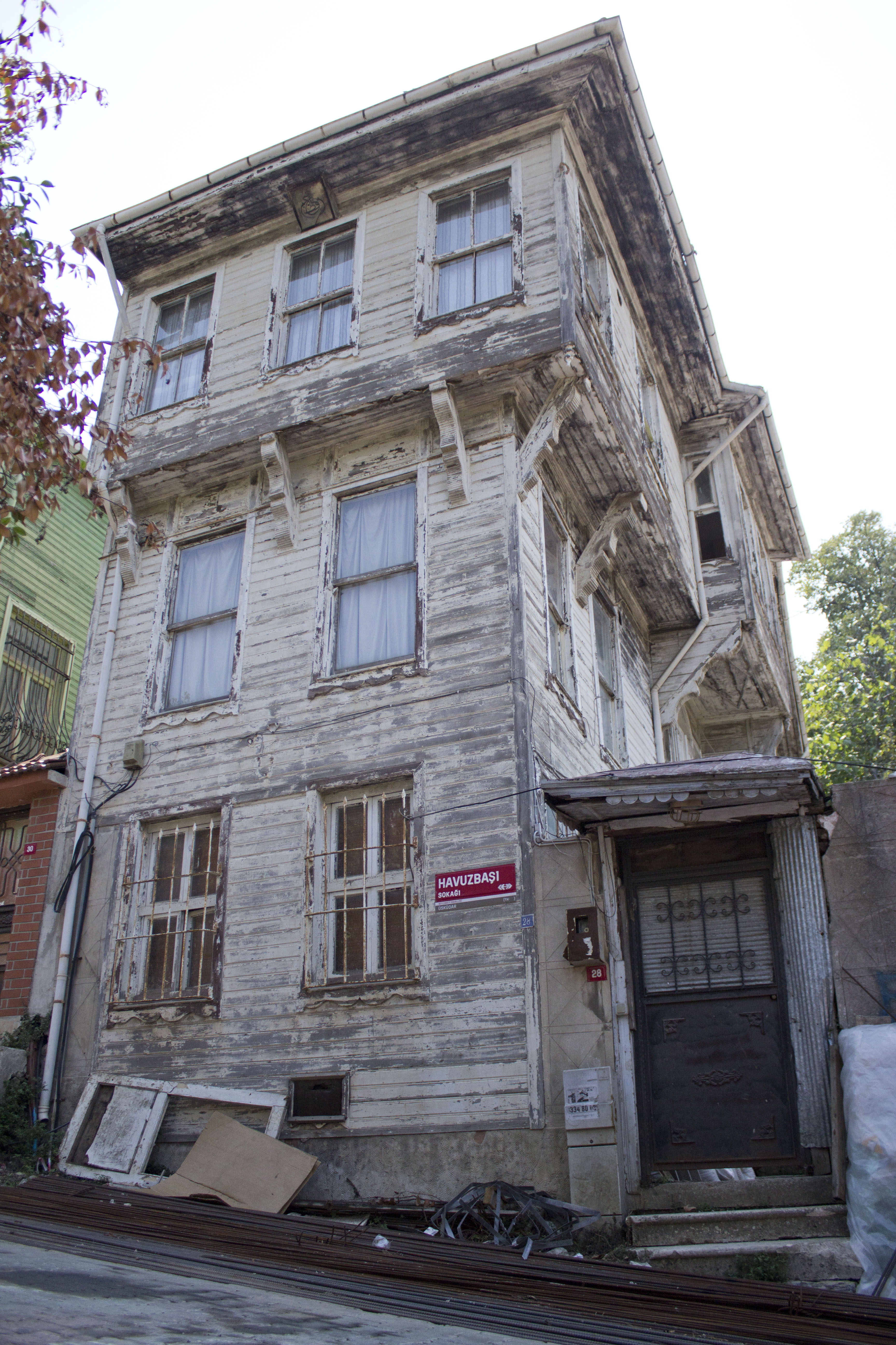 An old wooden house in Çengelköy, Istanbul, Turkey